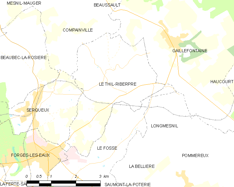 Map of French municipality Le Thil-Riberpré